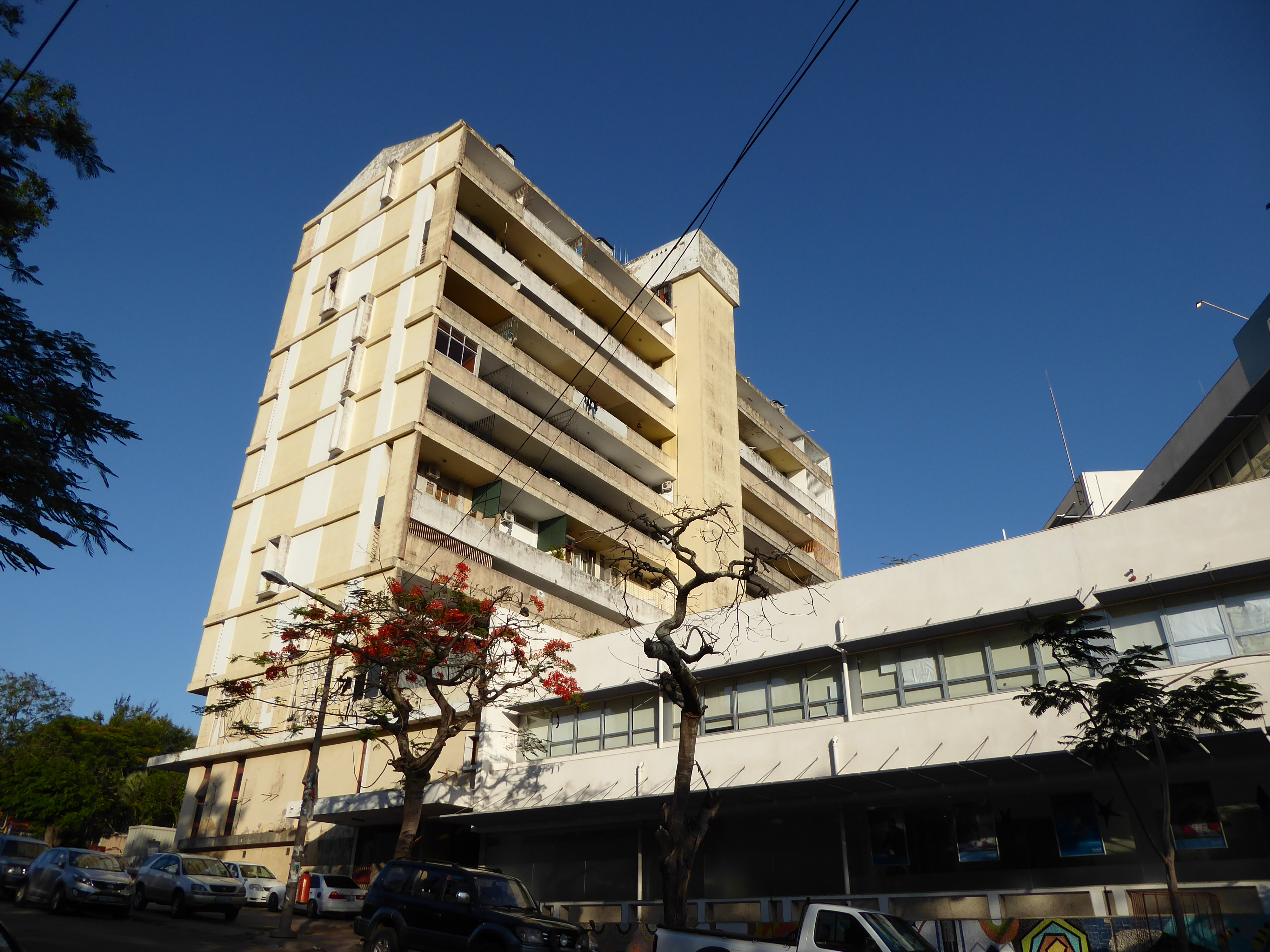 Tonelli building in Maputo, Mozambique